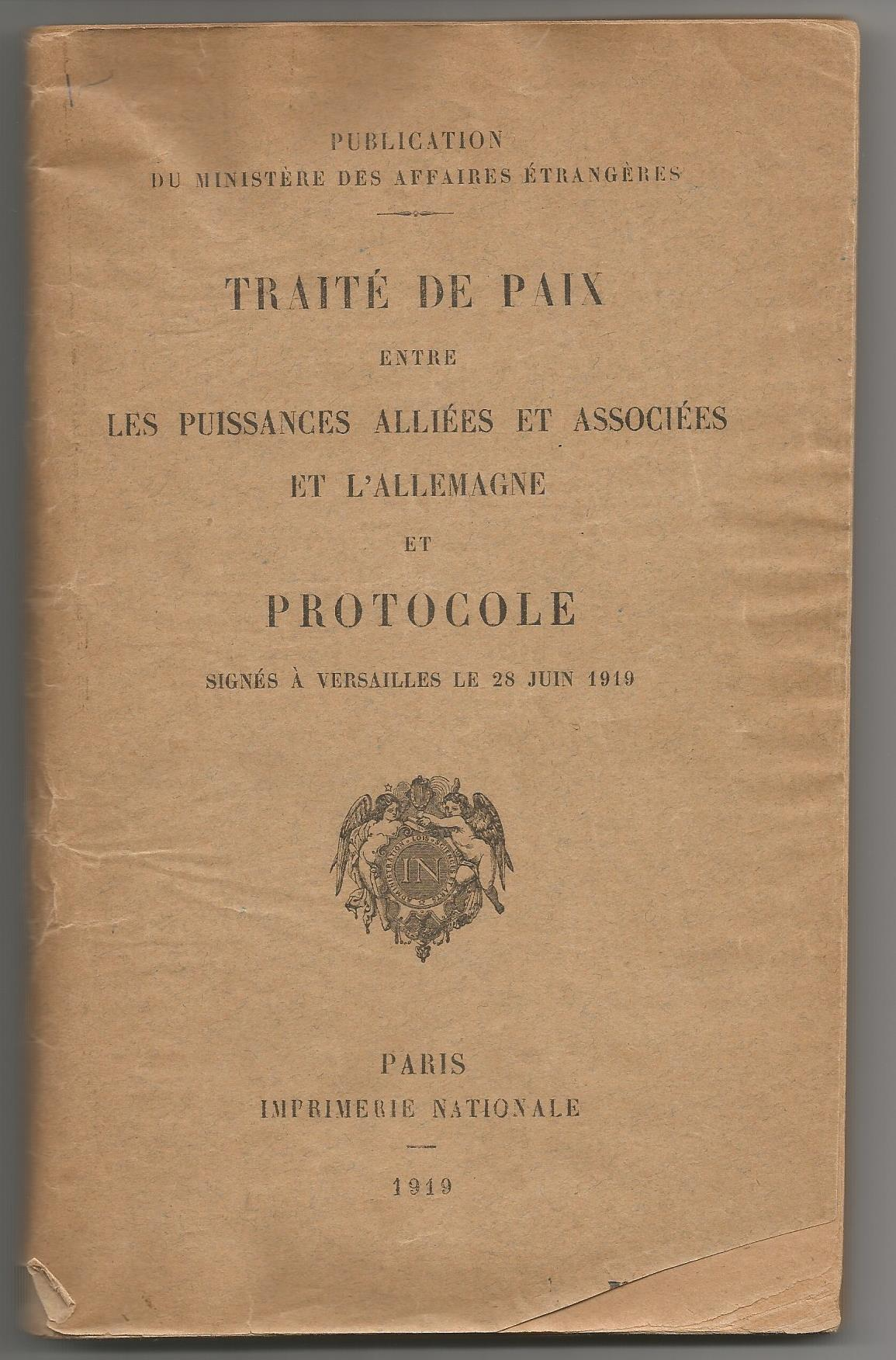 Treaty of Versailles 1919, French version